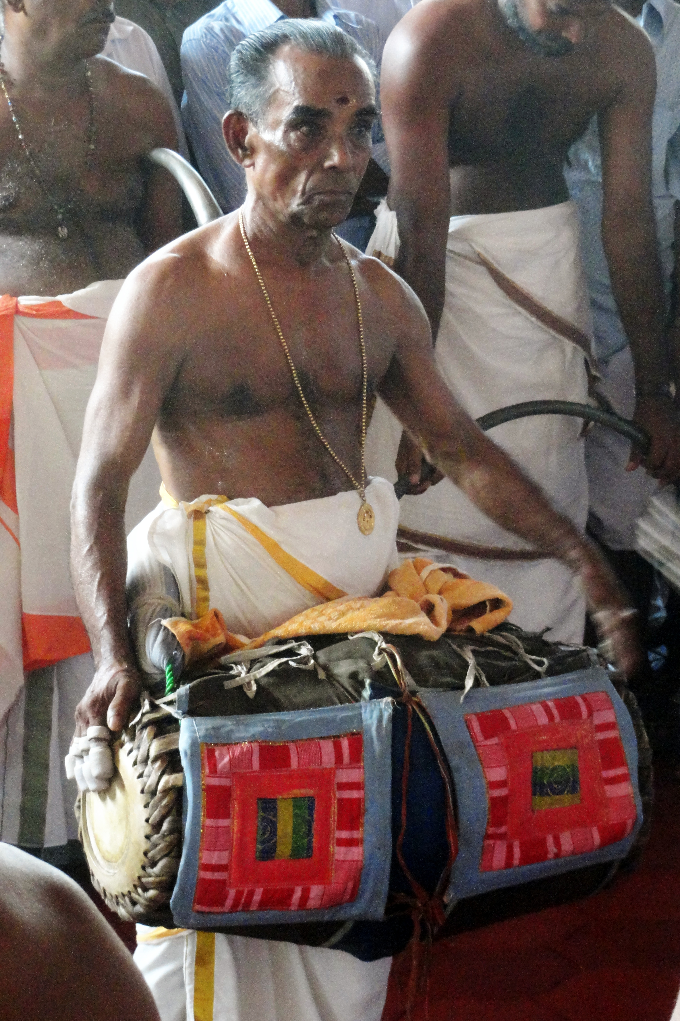 Thrikkoor Rajan is a famous Maddhalam Artist of Kerala, India.